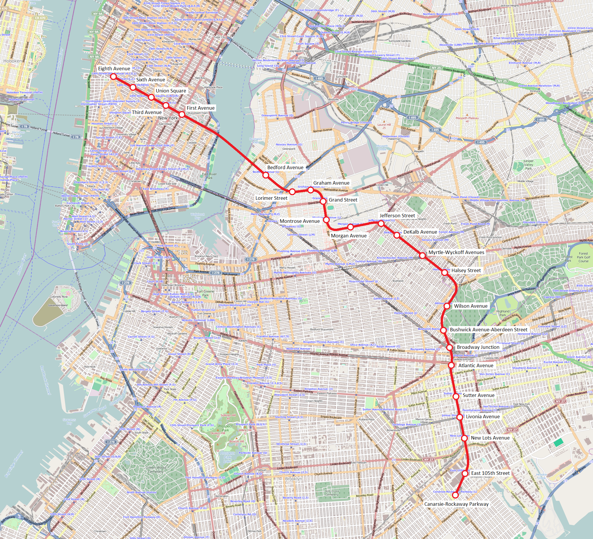 BMT Canarsie Line map